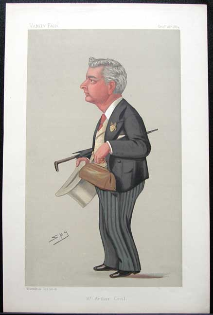 Caricature of Arthur Cecil Blunt (1843-1896) aka Arthur Cecil.